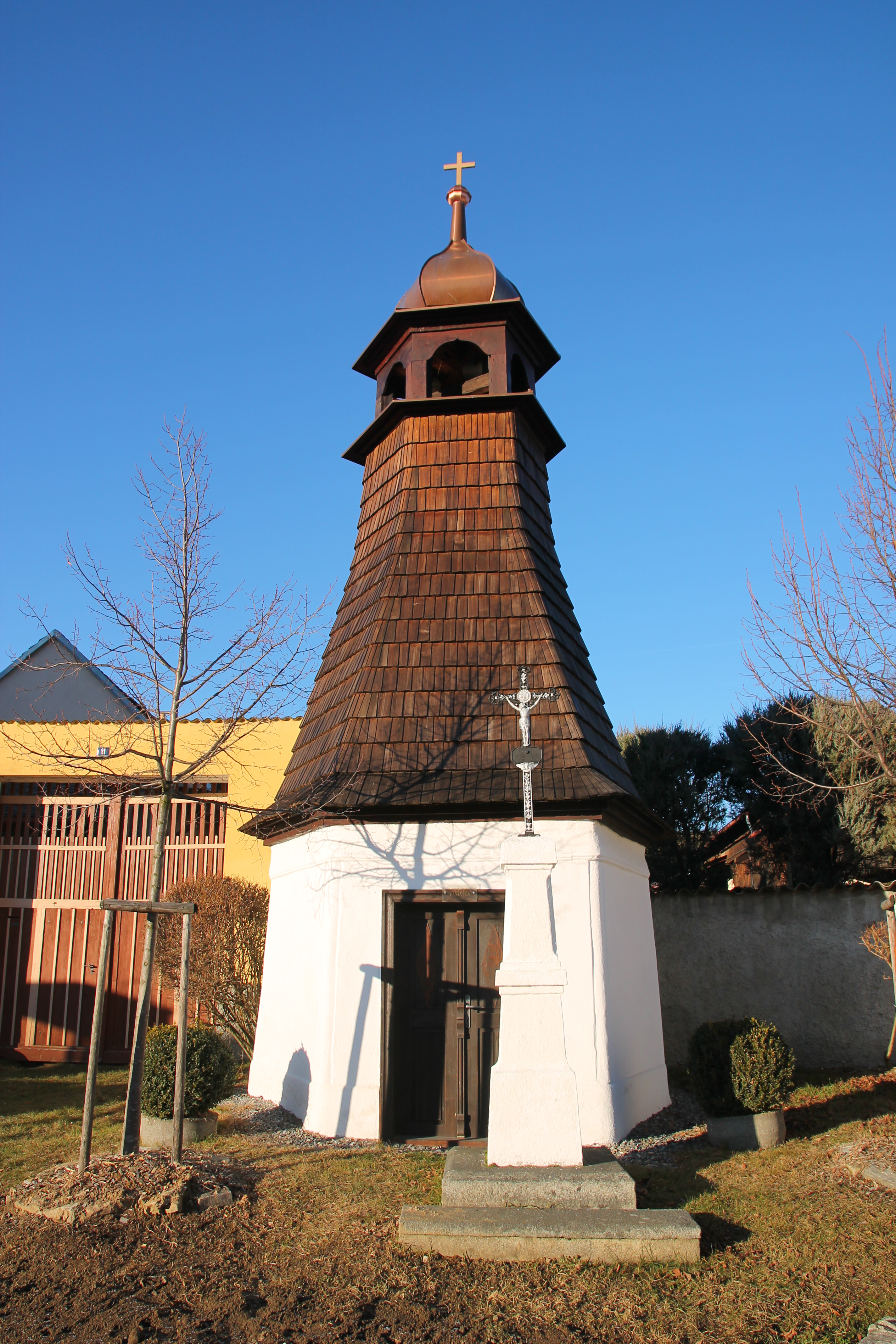 Drážov